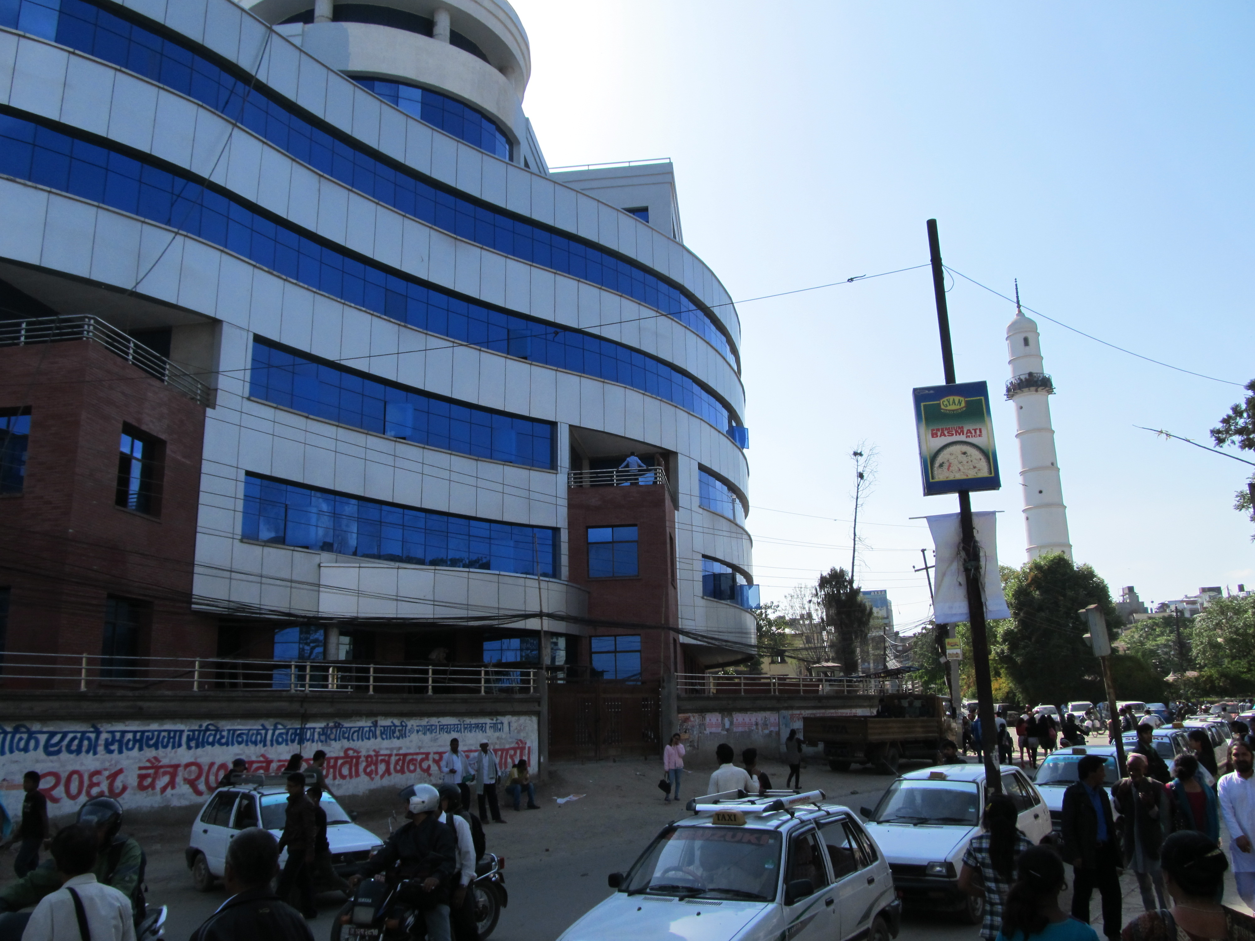 Nepal Telekom building and Dharahara tower